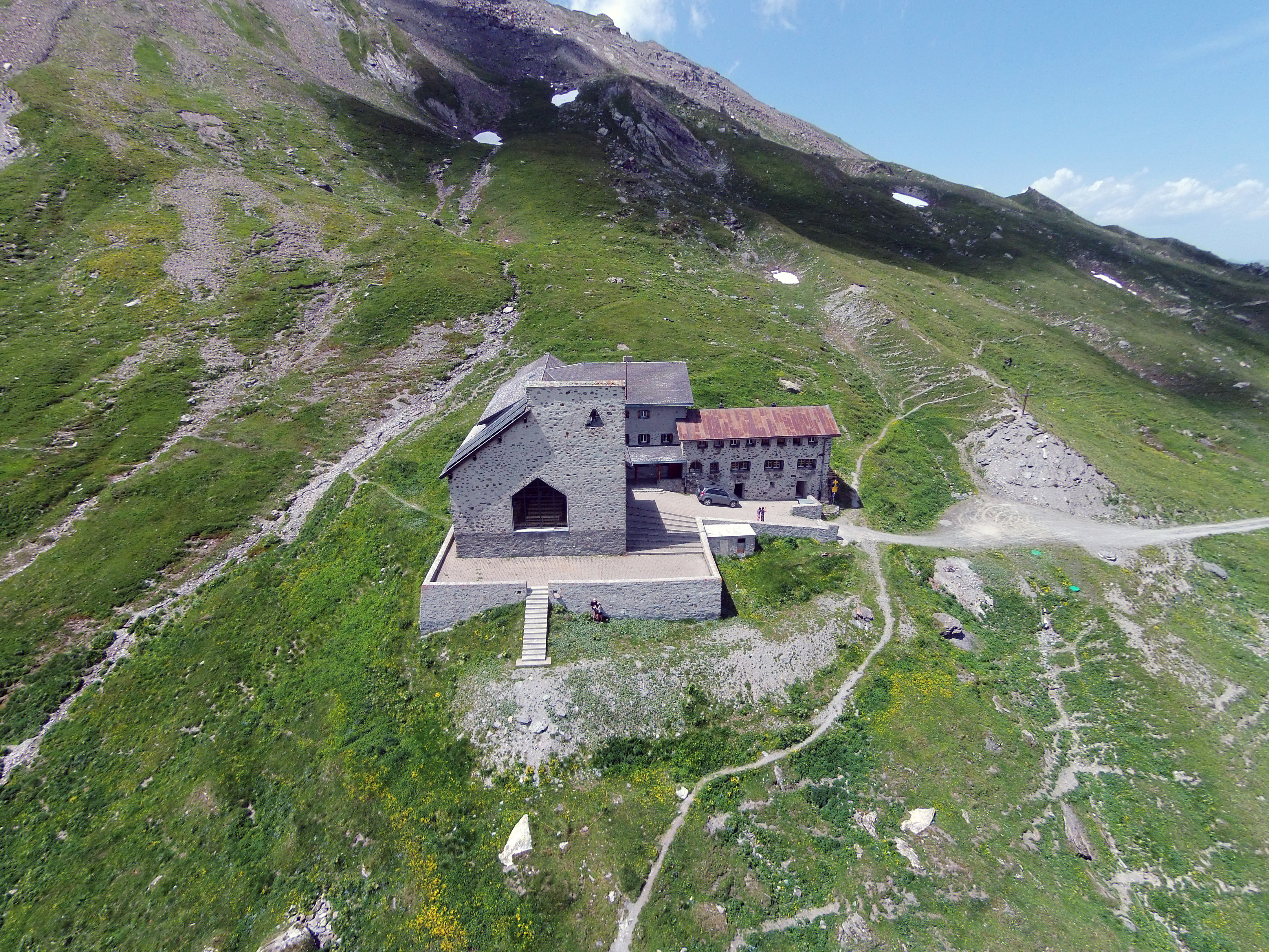 Aerial recording of Ziteil (2429 m, Salouf, Grisons, Switzerland)